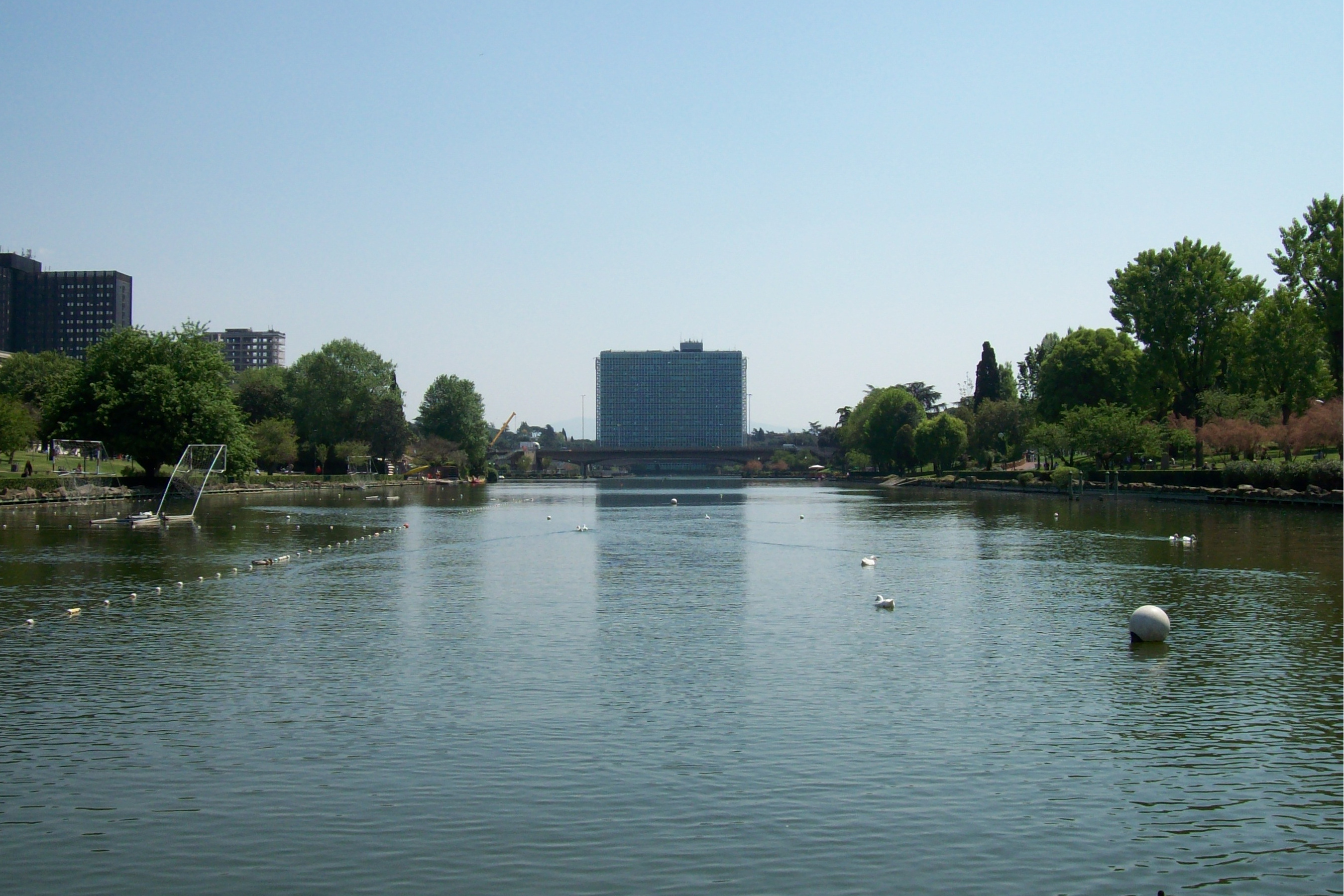 The EUR artificial lake in Rome; on the background the building of ENI